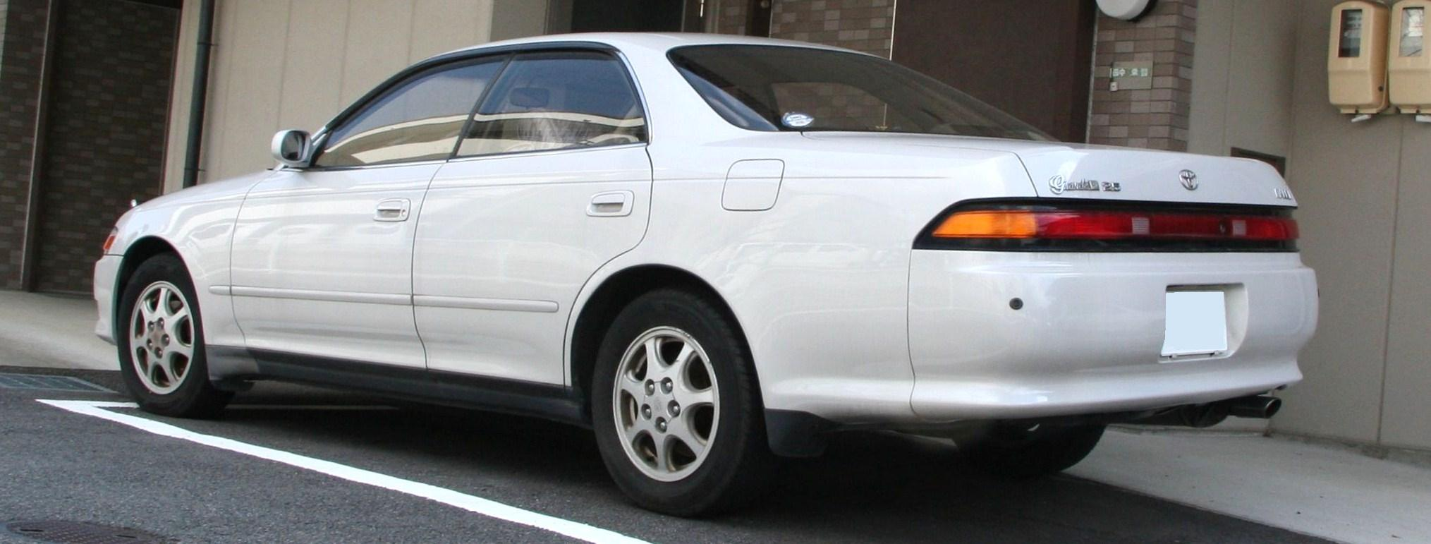 Toyota Mark II